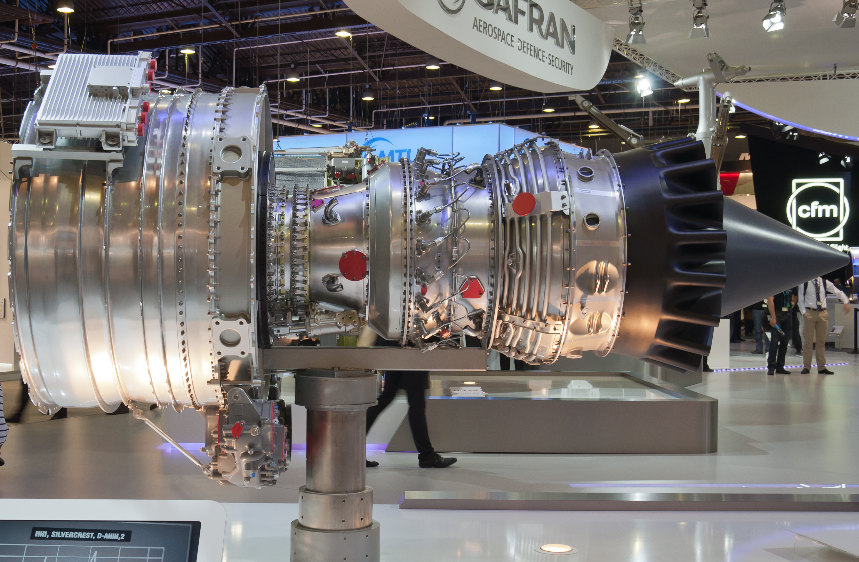 Snecma Silvercrest turbofan engine (chosen for Cessna Citation Longitude, 9,500-12,000 pounds of thrust according to Snecma).